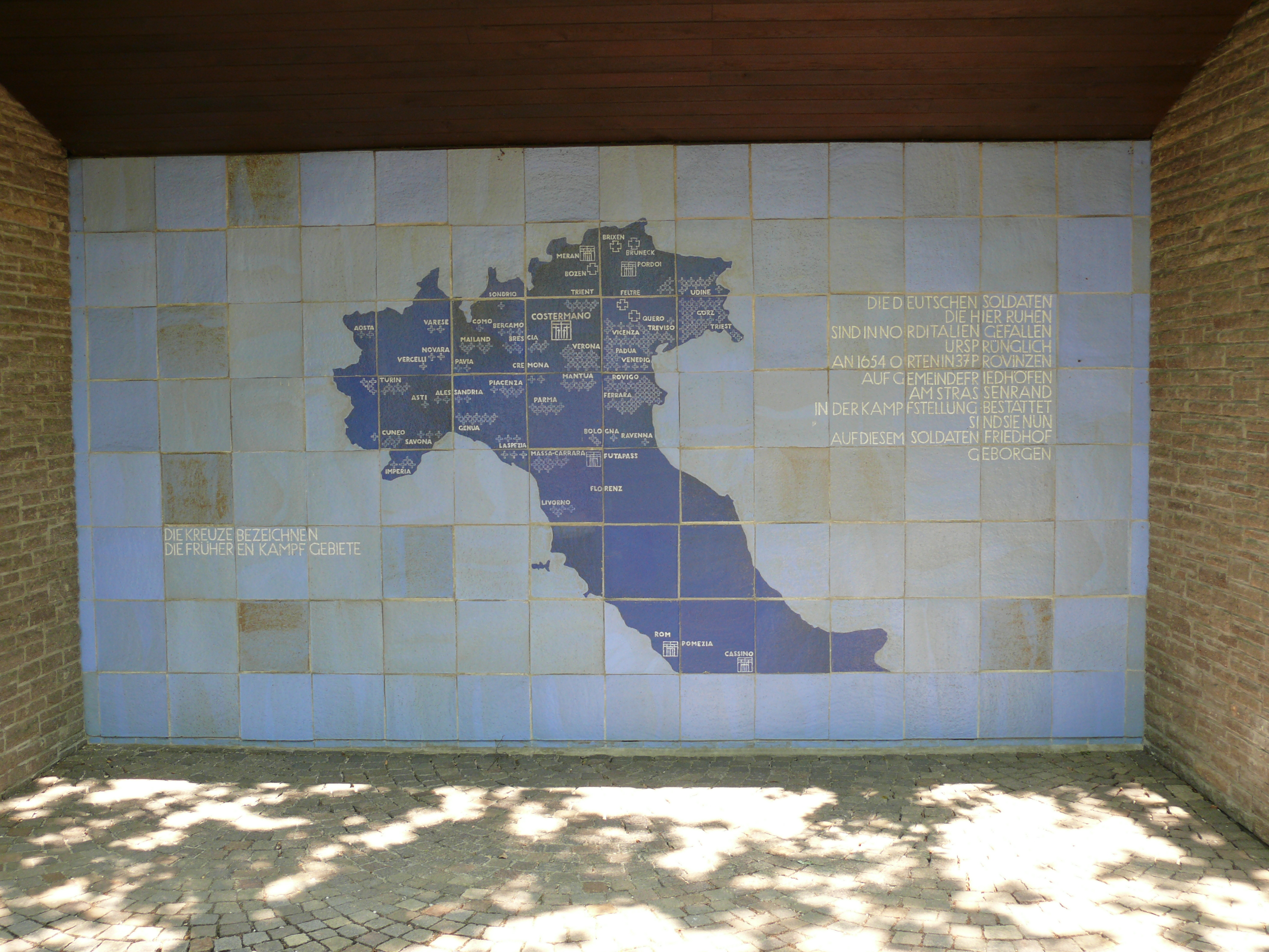 German War Cemetery Costermano (Italy)